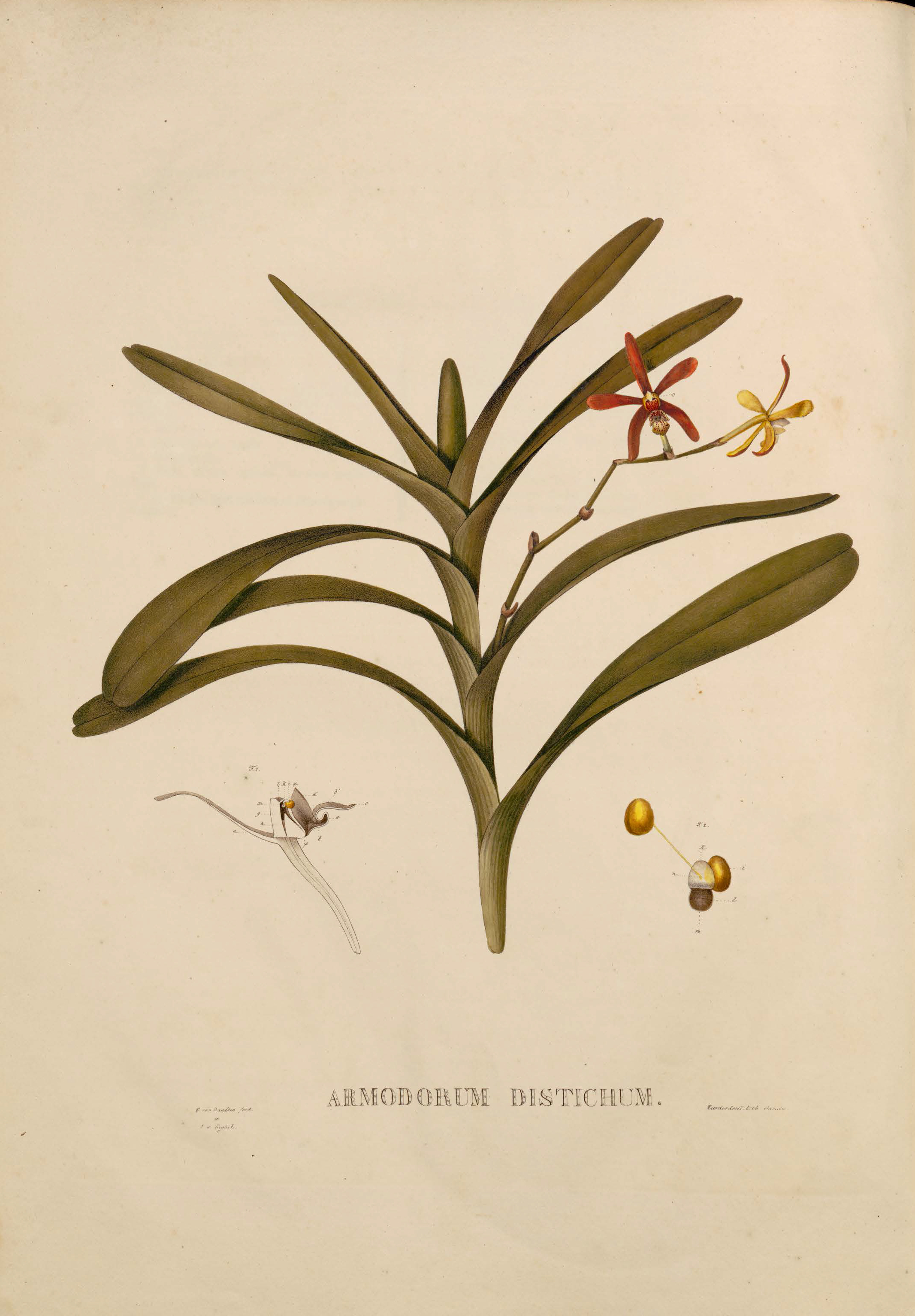 Orchid Armodorum distichum (Armodorum sulingi Schlechter, 1911), drawing van Raalten, from van Breda, 1827.